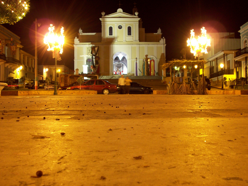 Church of San Germán Auxerre overlooks the town of San Germán's main plaza. The church and plaza are listed on the U.S National Register of Historic Places.